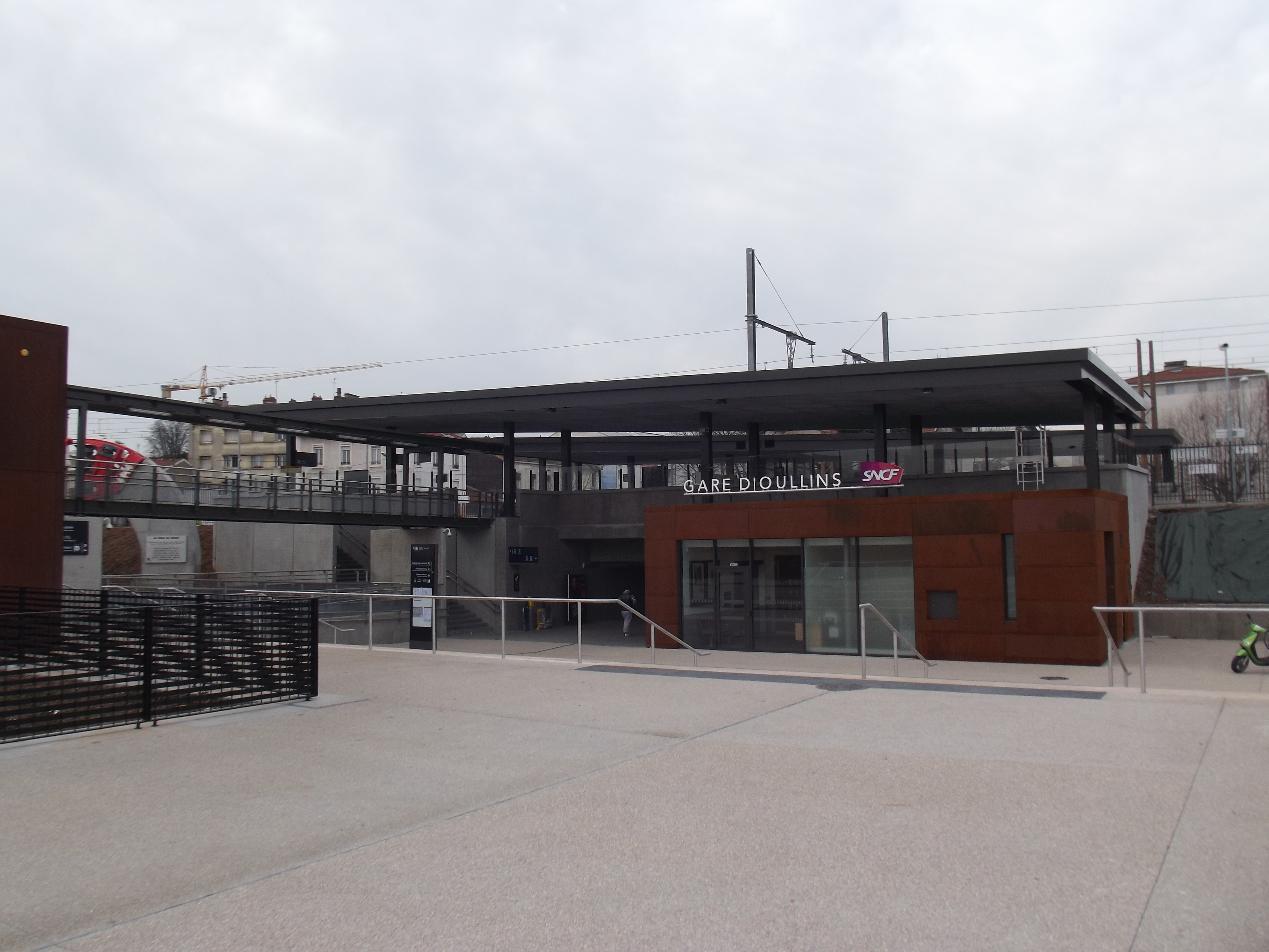 New Oullins station building